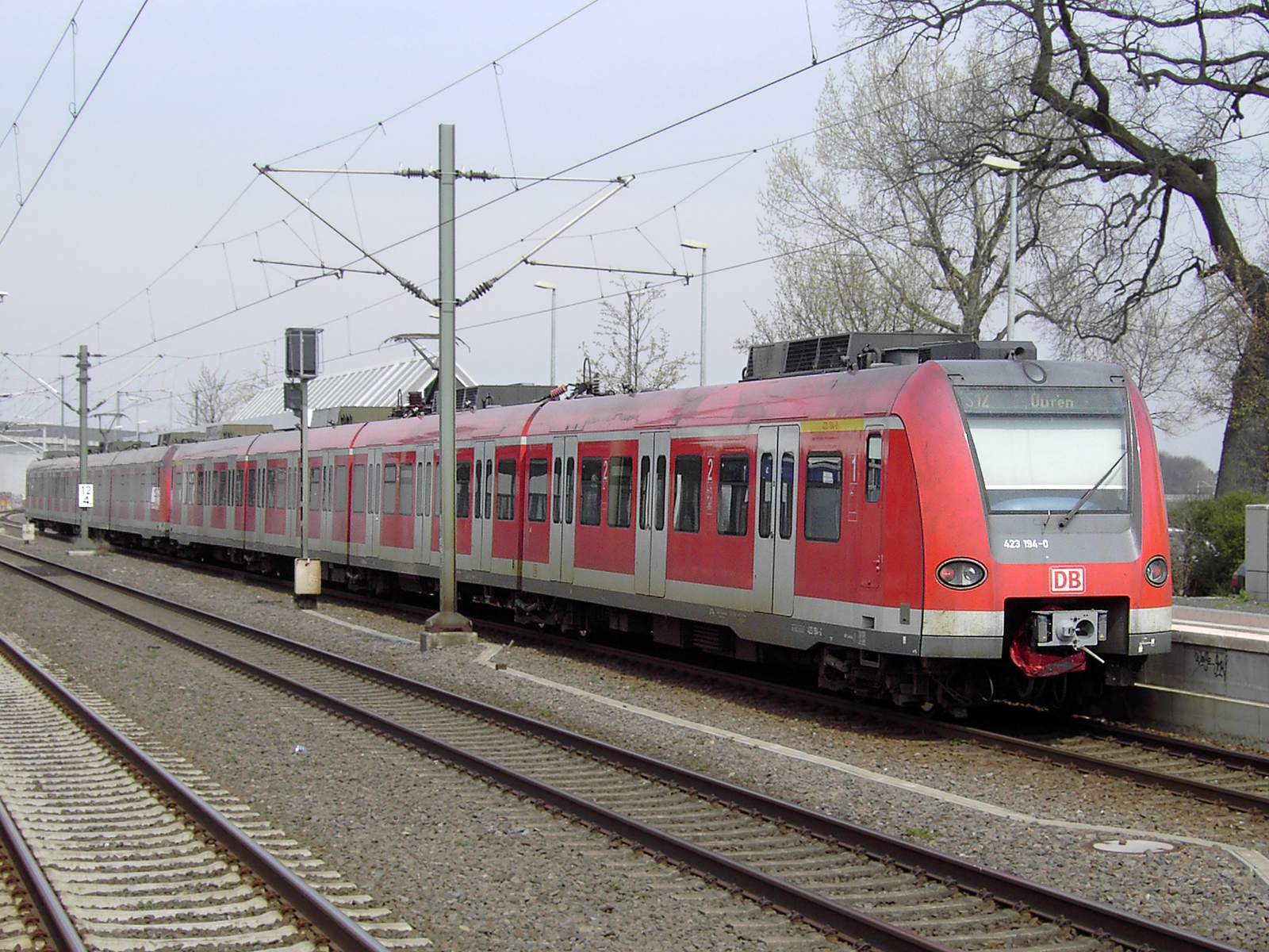 S-Bahn EMU Class 423 at Porz-Wahn